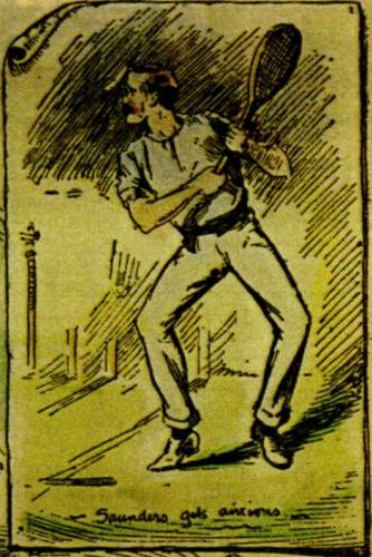 Charles Saunders at the Real Tennis World Championship, 1890, Dublin Caption: "Sauders gets anxious." Cropt from larger image.